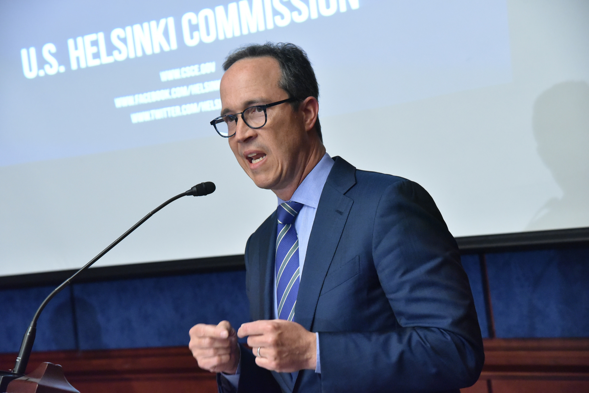 Panelist, Jim Walden speaking before the U.S. Helsinki Commission, The Russian Doping Scandal